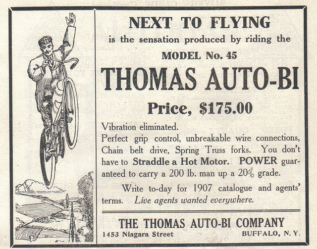 Advertisement for 1907 Thomas Auto-Bi motorized bicycle (motorcycle).